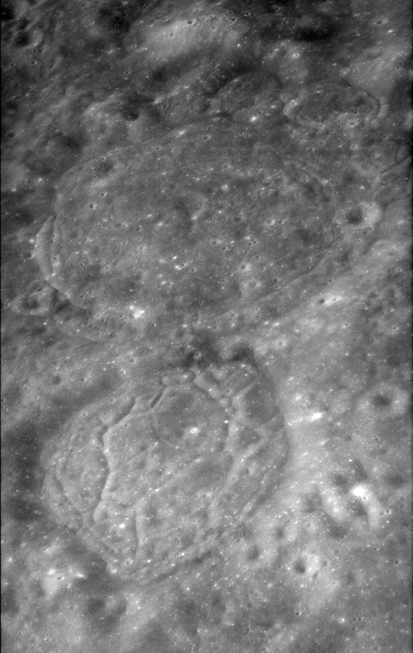 Oblique view facing north of Tamm (above center) and Van den Bos (below center), on the far side of the moon.